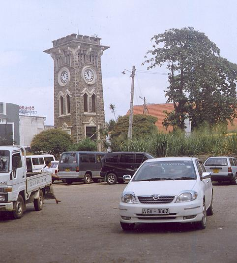 Kurunegala Clock Tower